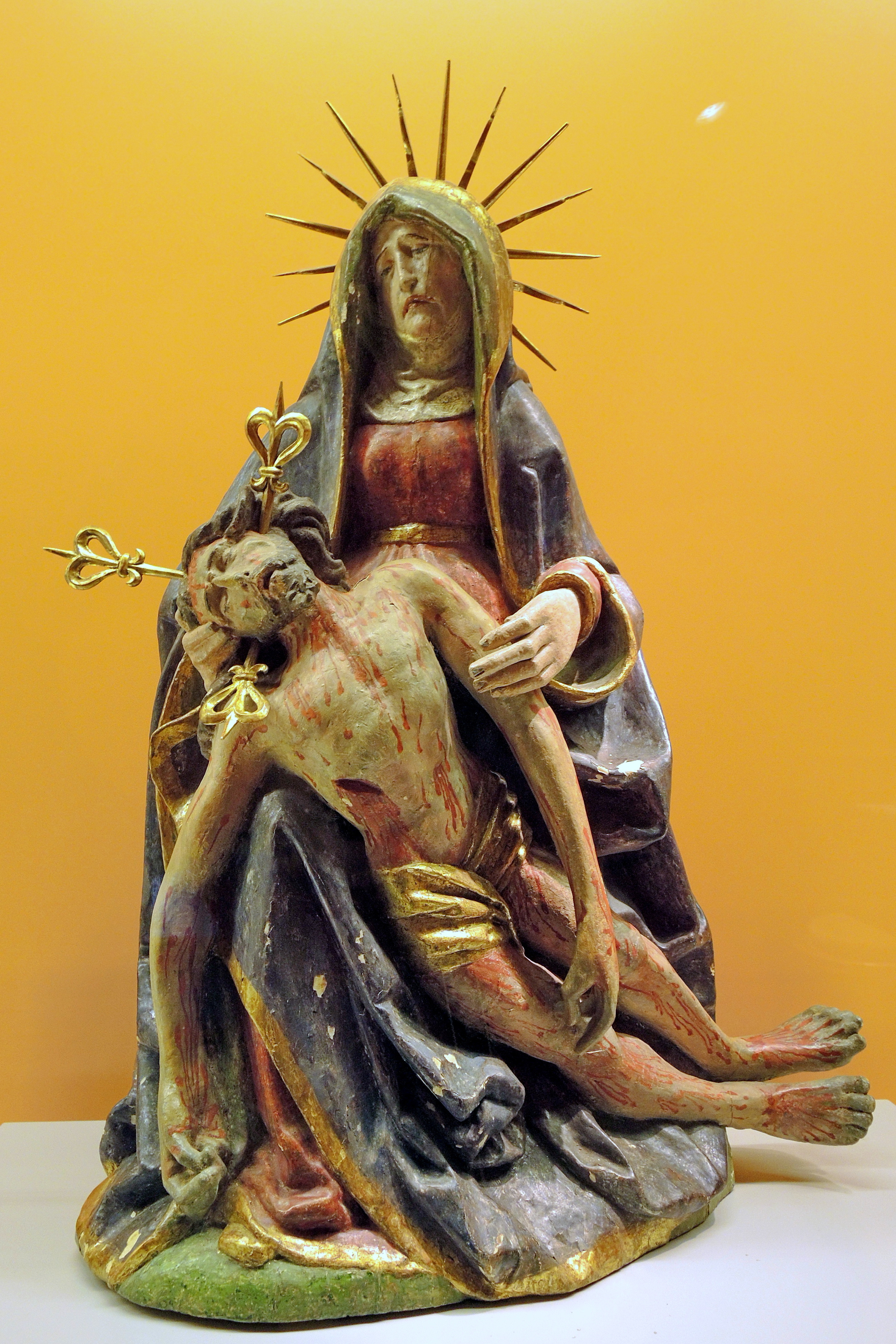 Collection of the Stadtmuseum) in Rapperswil (Switzerland)